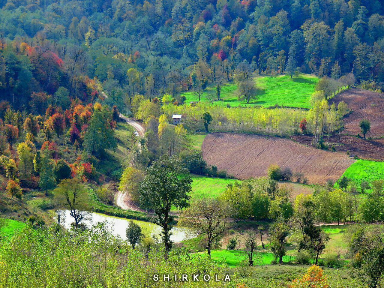 دورنمایی از جنگل و مزارع در فصل پاییز